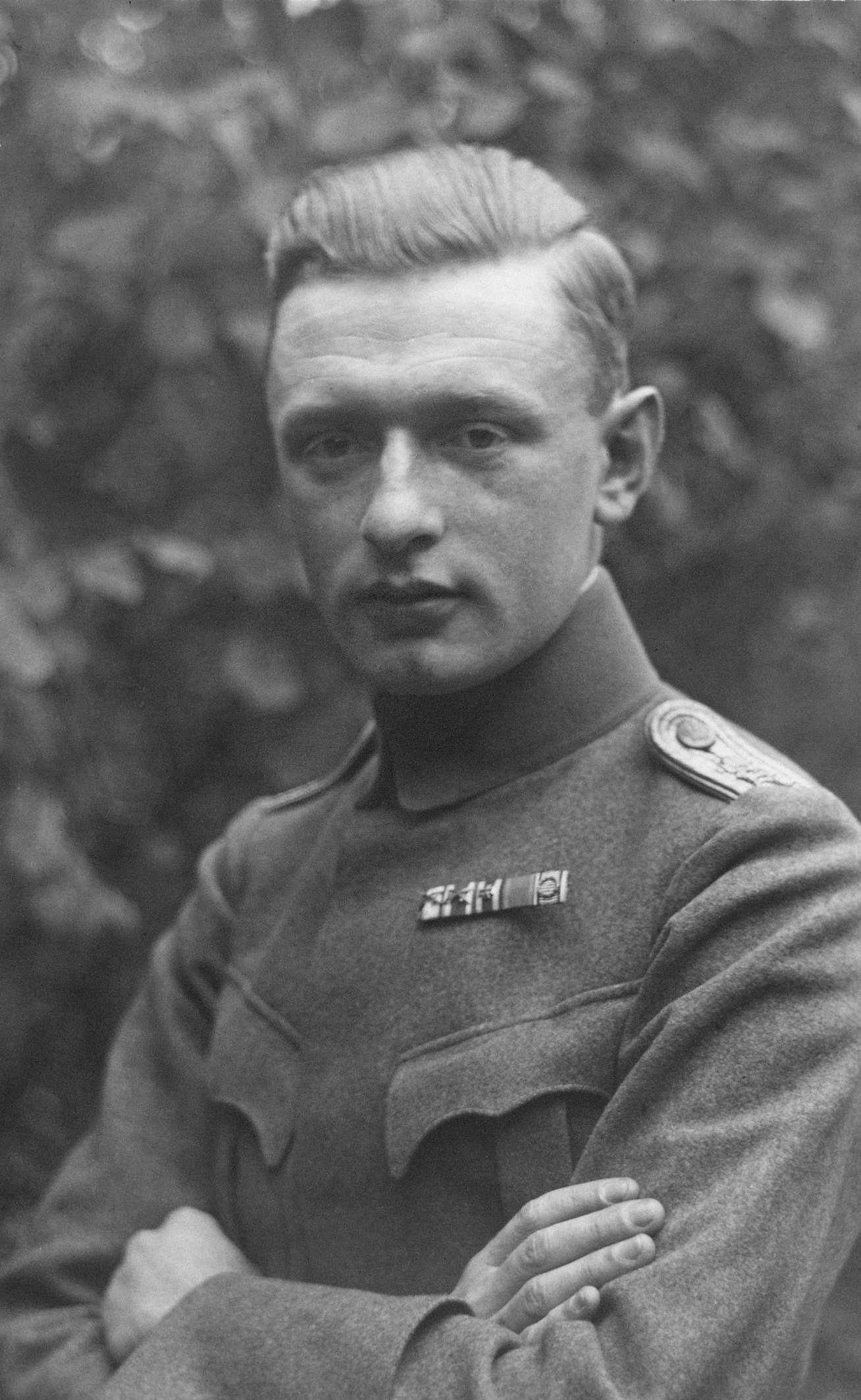 Ernst von der Decken